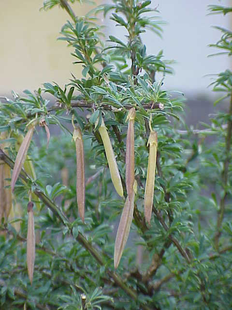 Species: Caragana pygmaea Family: Fabaceae Image No. 1